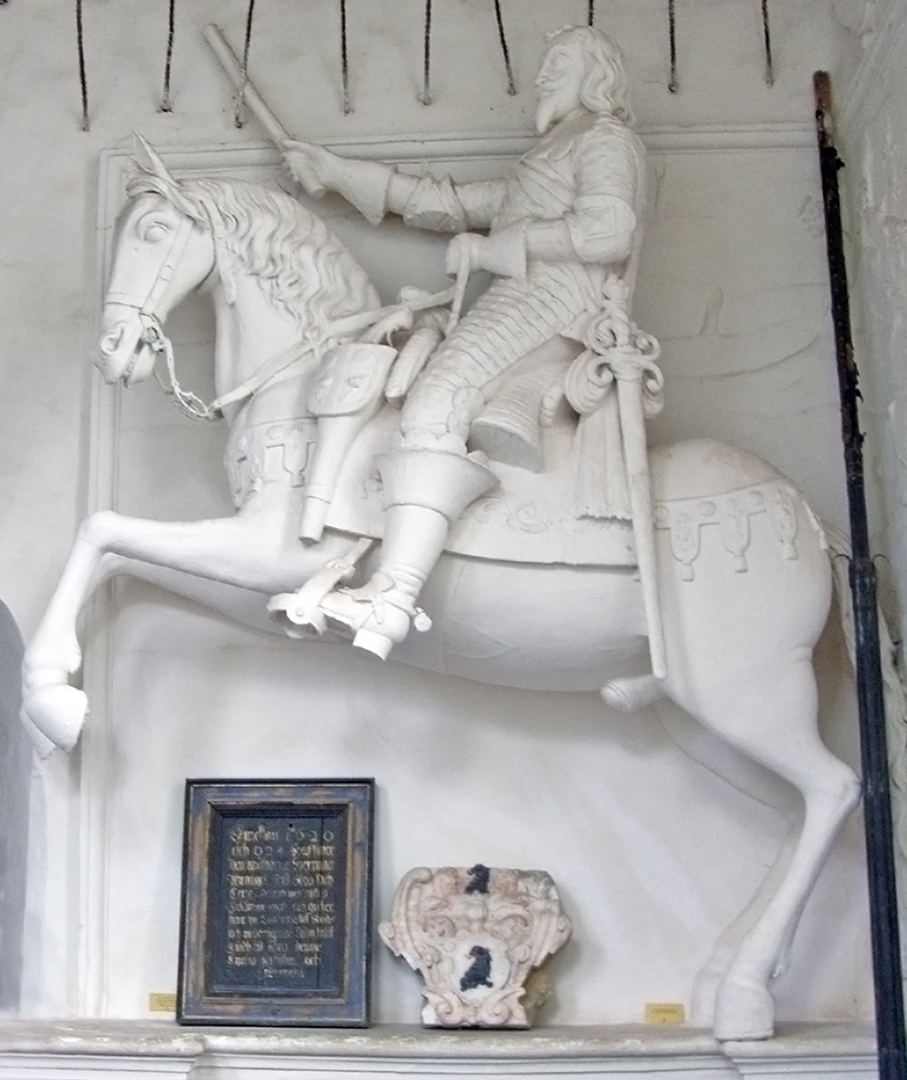 Statue of Swedish military commander and count Herman Wrangel on a horse. At Skokloster church near the castle Wrangel built.